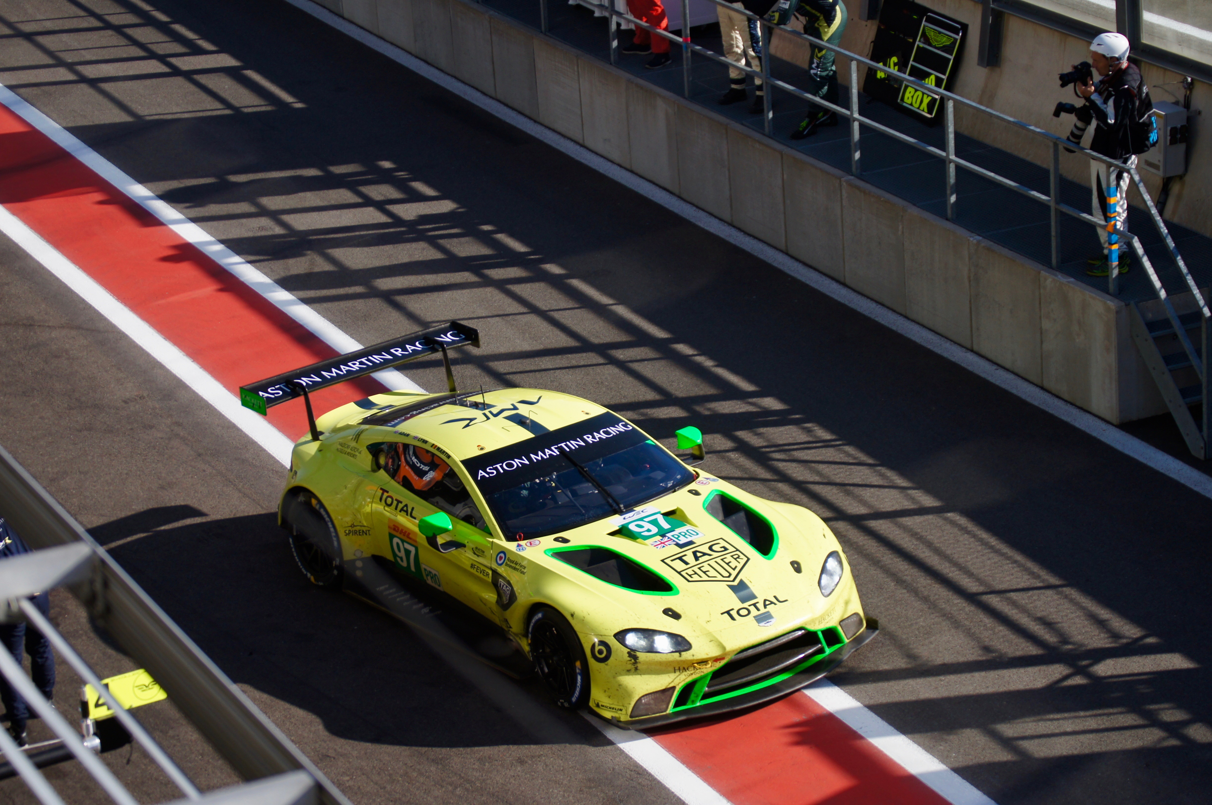 The new Aston Martin Vantage AMR that will compete in the 2018-19 FIA World Endurance Championship.